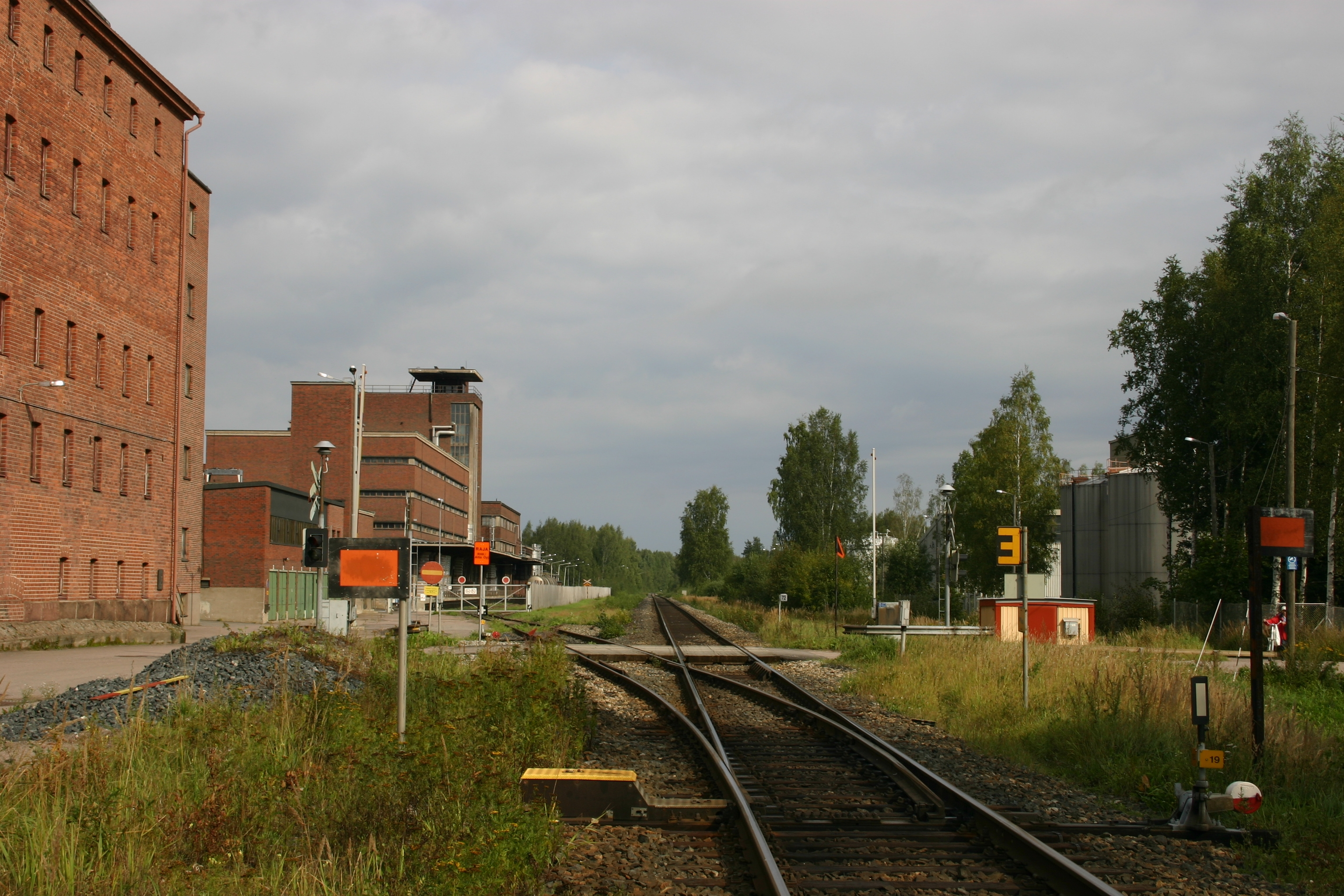 Blind track to Rajamäki factories in Rajaniemi, Nurmijärvi, Finland